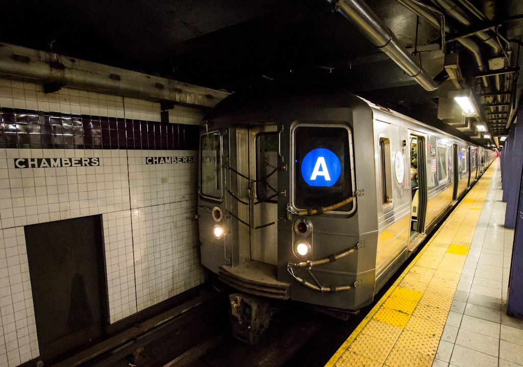 NYCT Subway - Kawasaki R-68A A Train at the IND Chambers Street Subway Station.